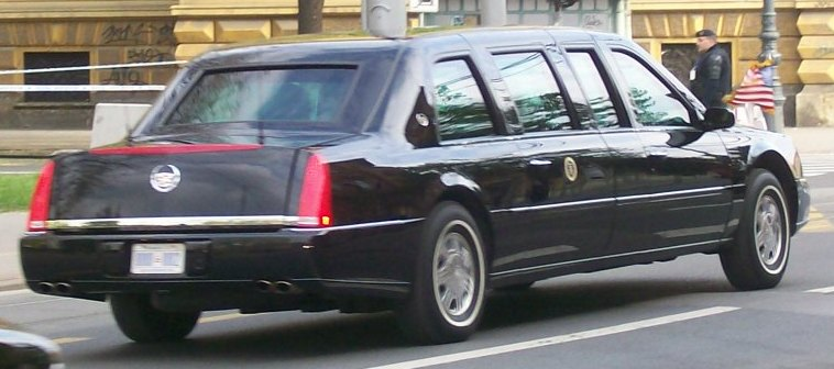 Bush's motorcade in Zagreb